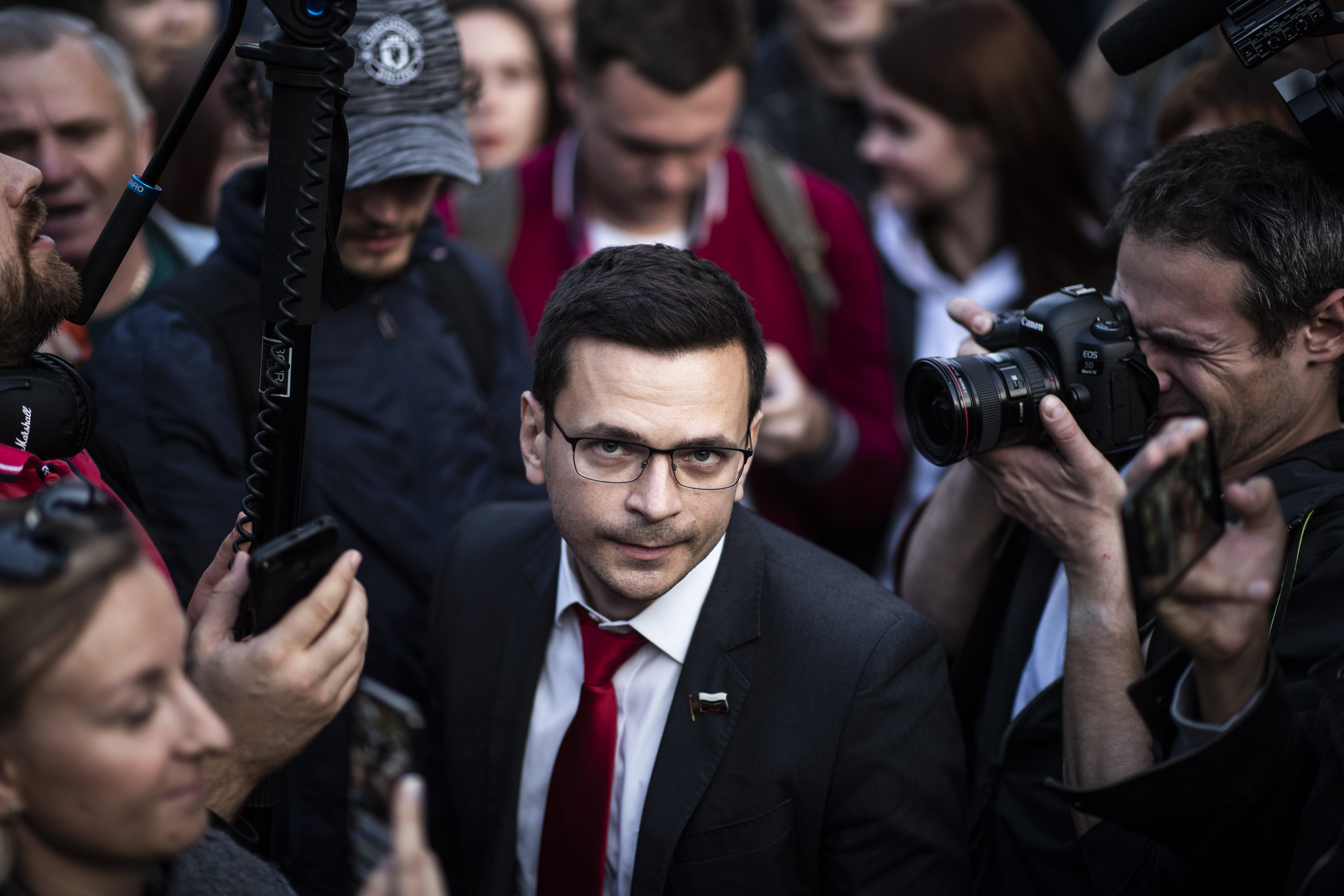 Ilya Yashin at a rally in Moscow